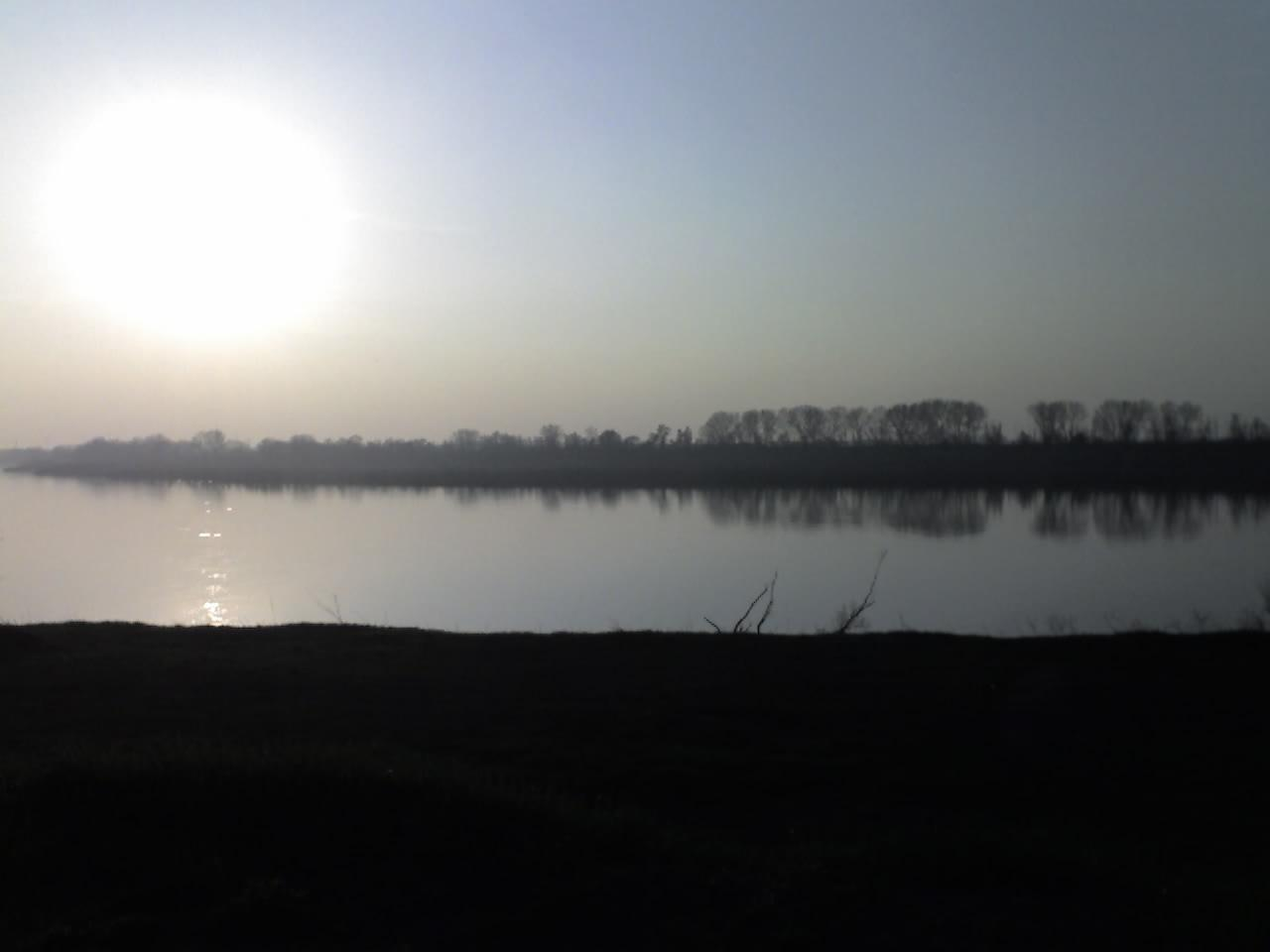 The Po River as seen from the bycicle touring course Destra Po in the province of Ferrara